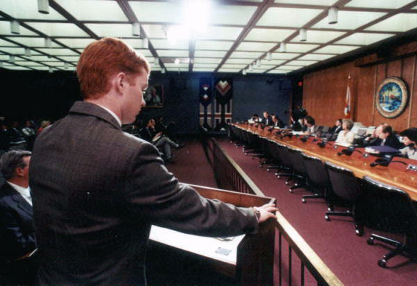 State Representative Adam Putnam waiting to address a House Committee - Tallahassee, Florida